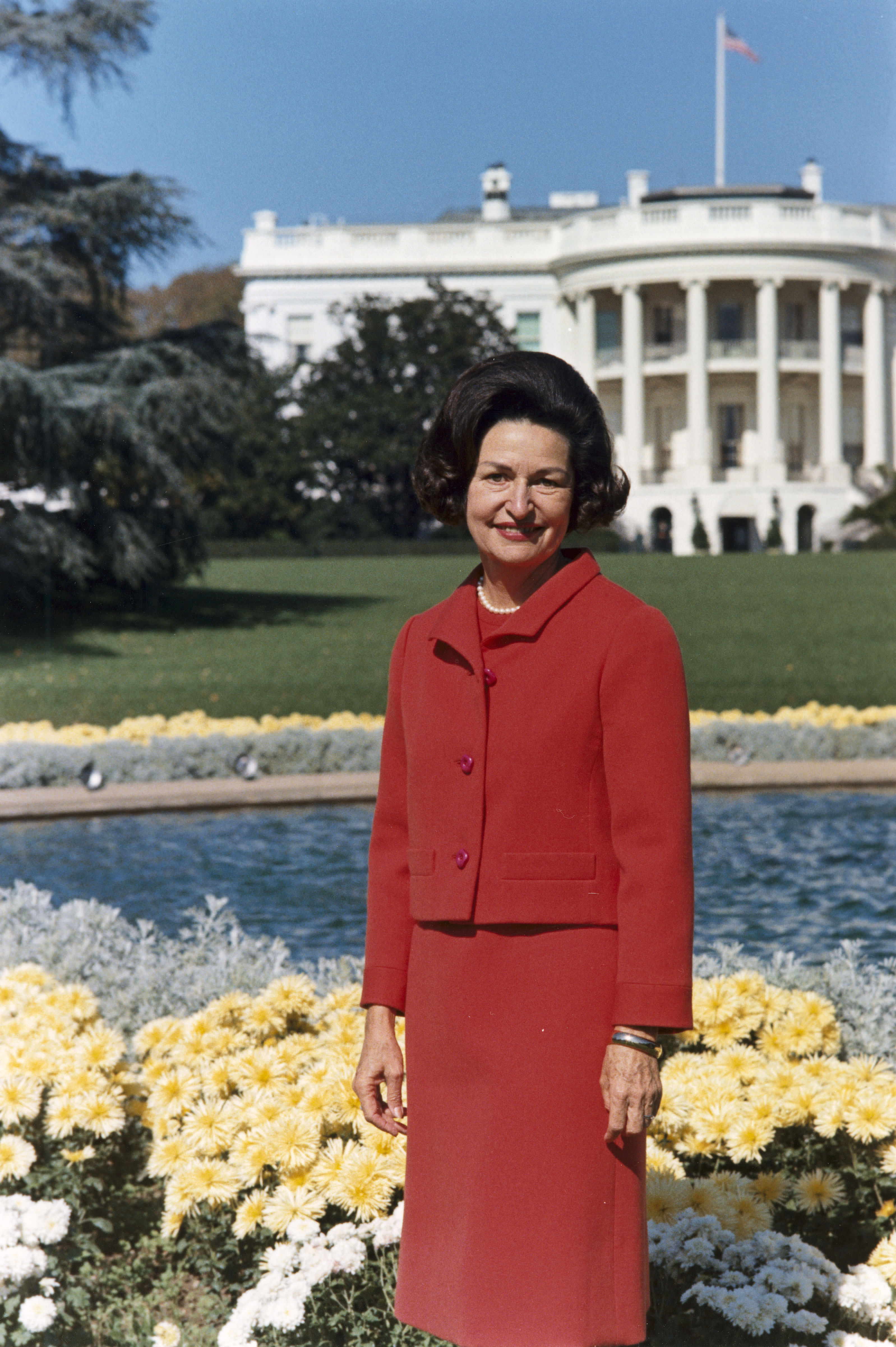 Photo portrait of First Lady Lady Bird Johnson in the back yard of the White House.